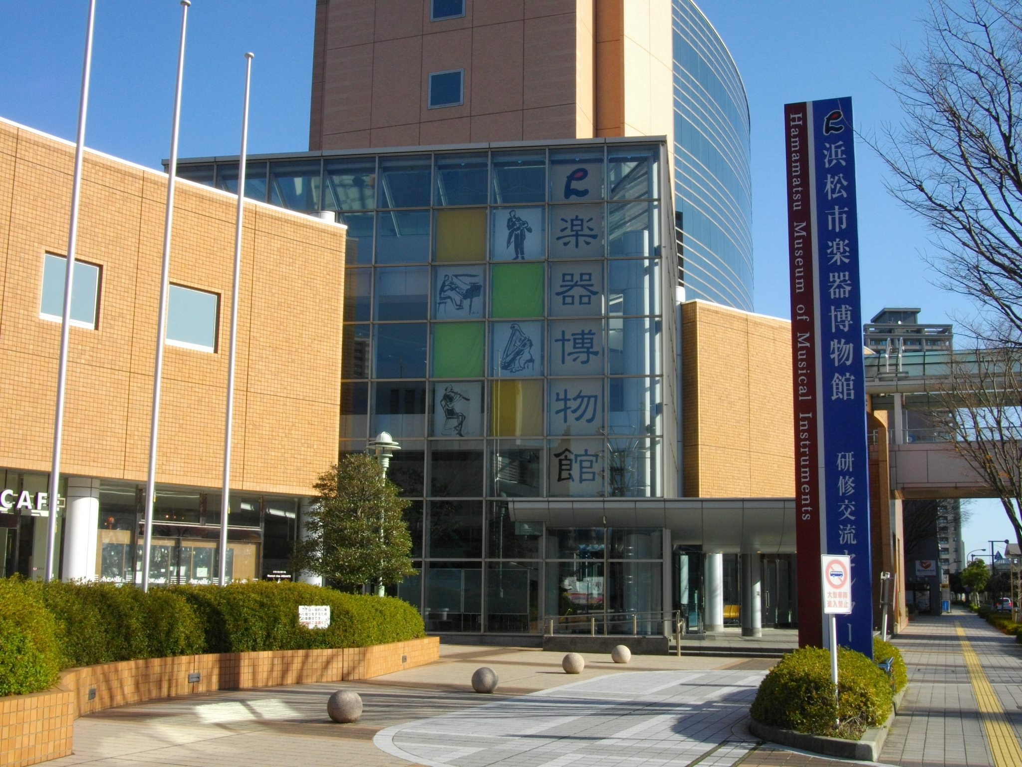 Hamamatsu Museum of Musical Instruments